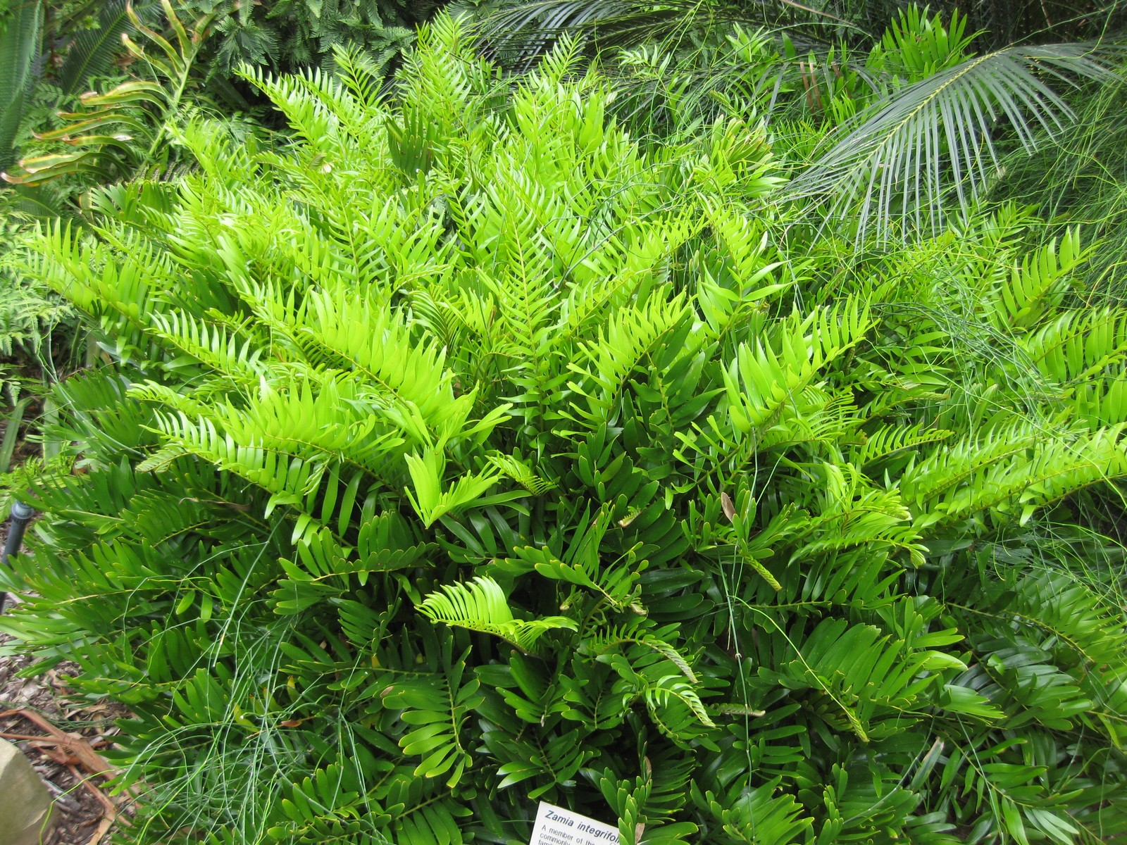 Photographed at the Royal Botanic Gardens Sydney (Australia) in January